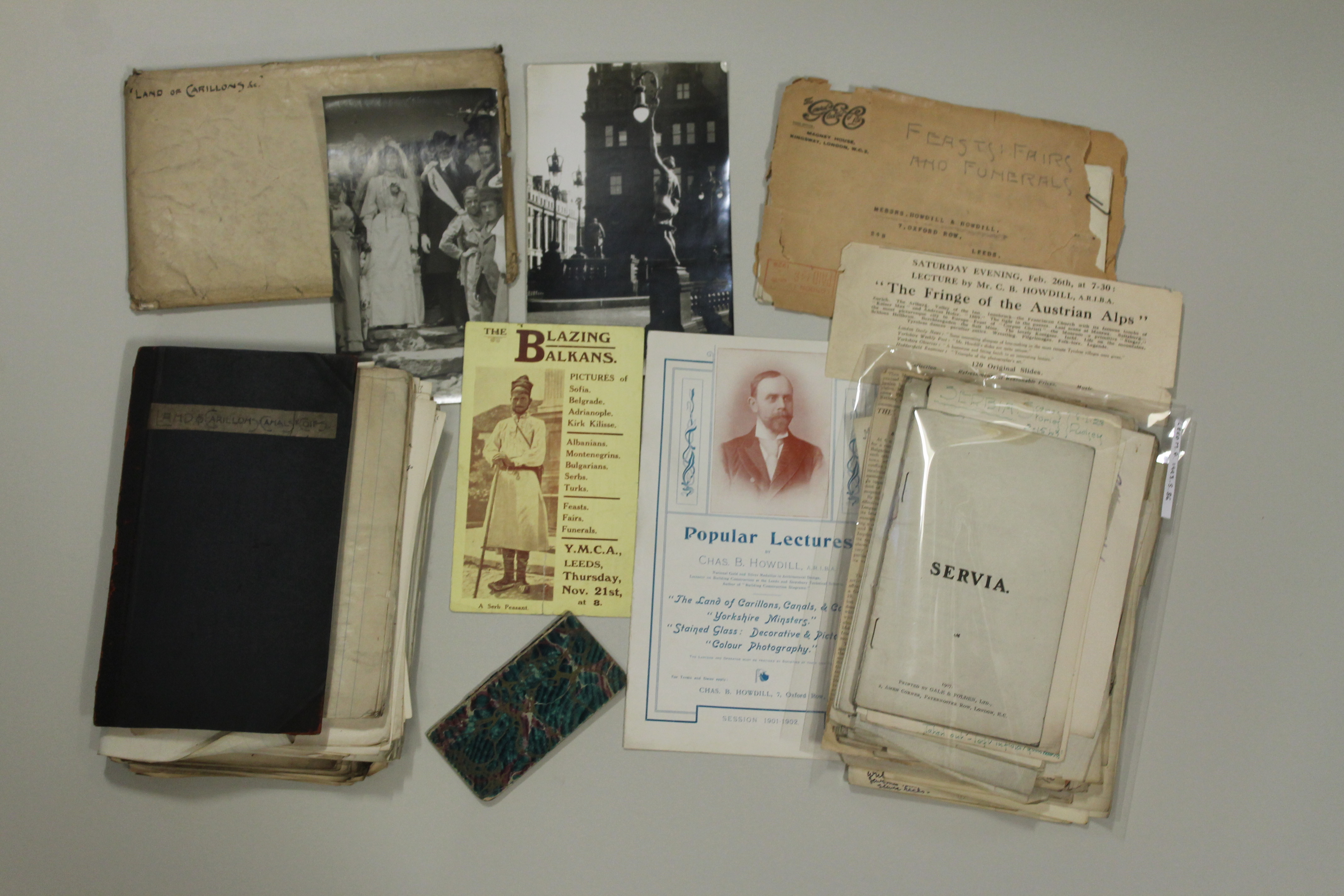 Howdill papers held by Leeds Museums